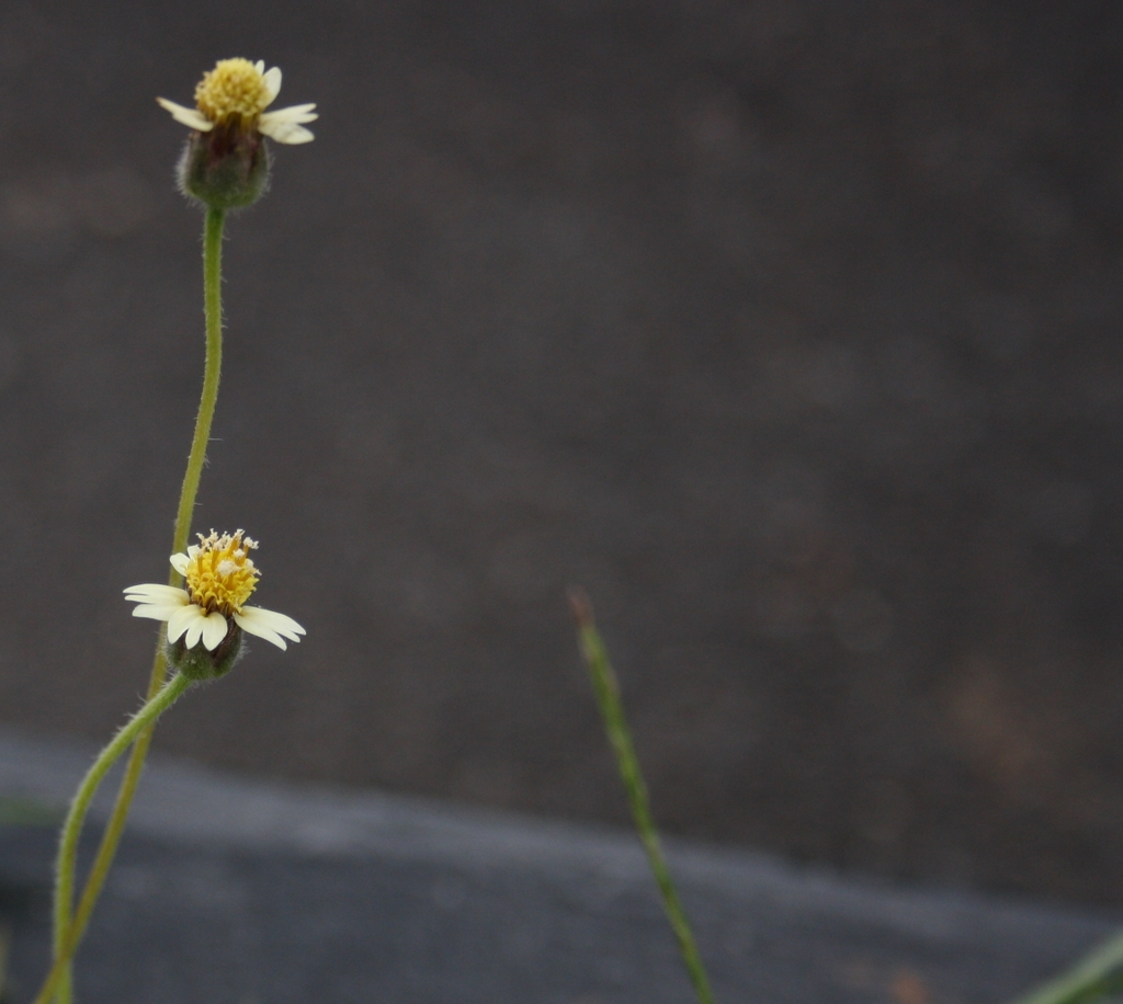 A variety of Tridax commonly found in India. This particular specimen was photographed in Hyderabad, AP. "Tridax procumbens" is a species of flowering plant in the daisy family.